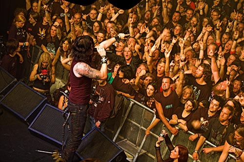 Satyricon live at Hole In The Sky, Bergen Metal Fest - 2006